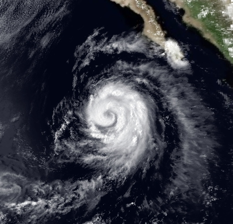 Image of Hurricane Ismael of the 1983 Pacific hurricane season on 10 August 1983